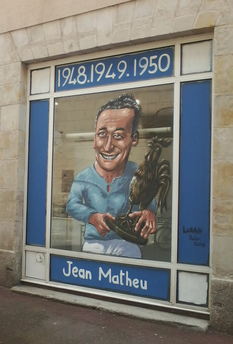 Hommage au capitaine Jean Matheu